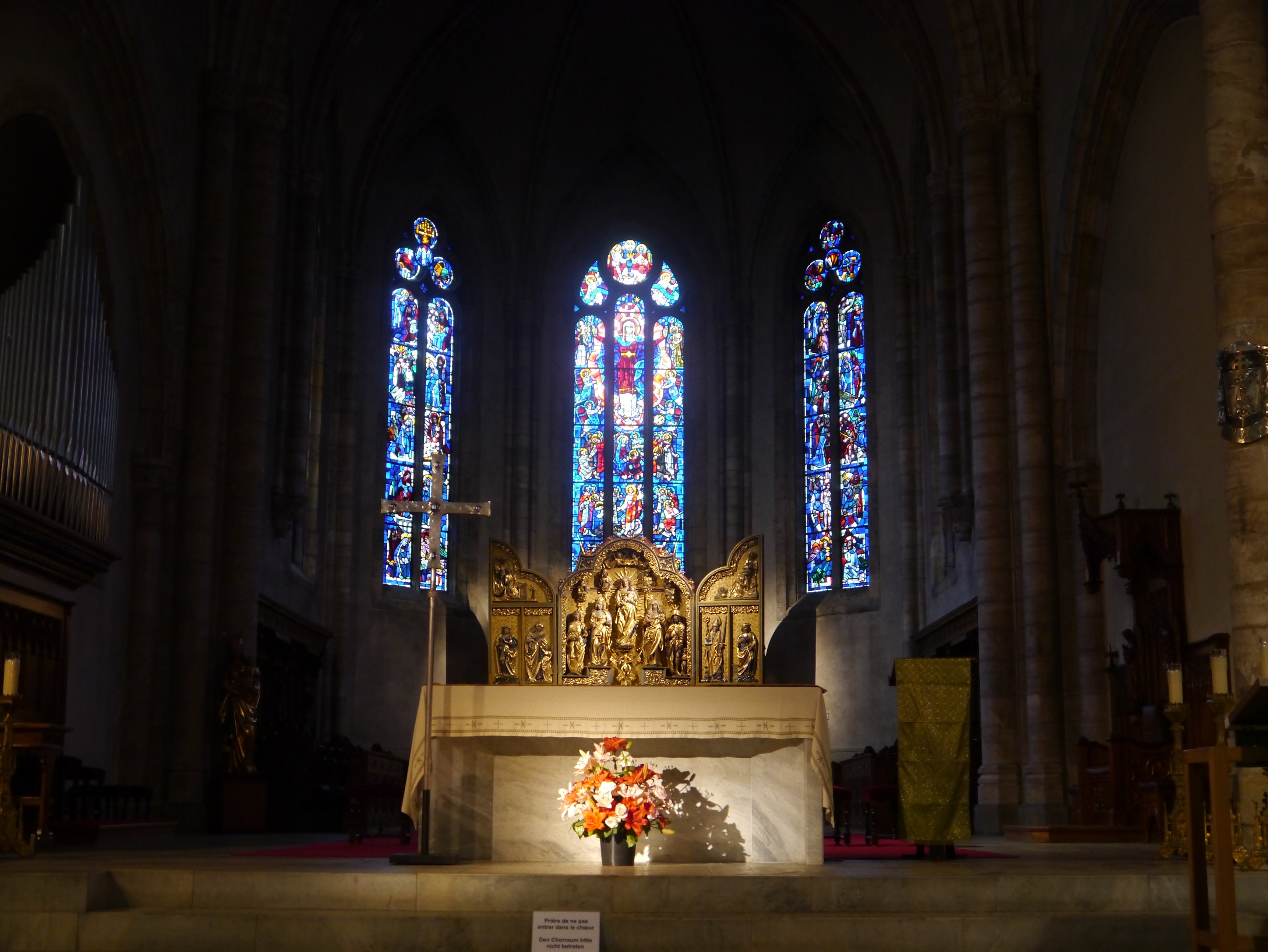 Choir of the Cathedral Our Lady of Glarier, Sion, Canton of Vallis, Switzerland